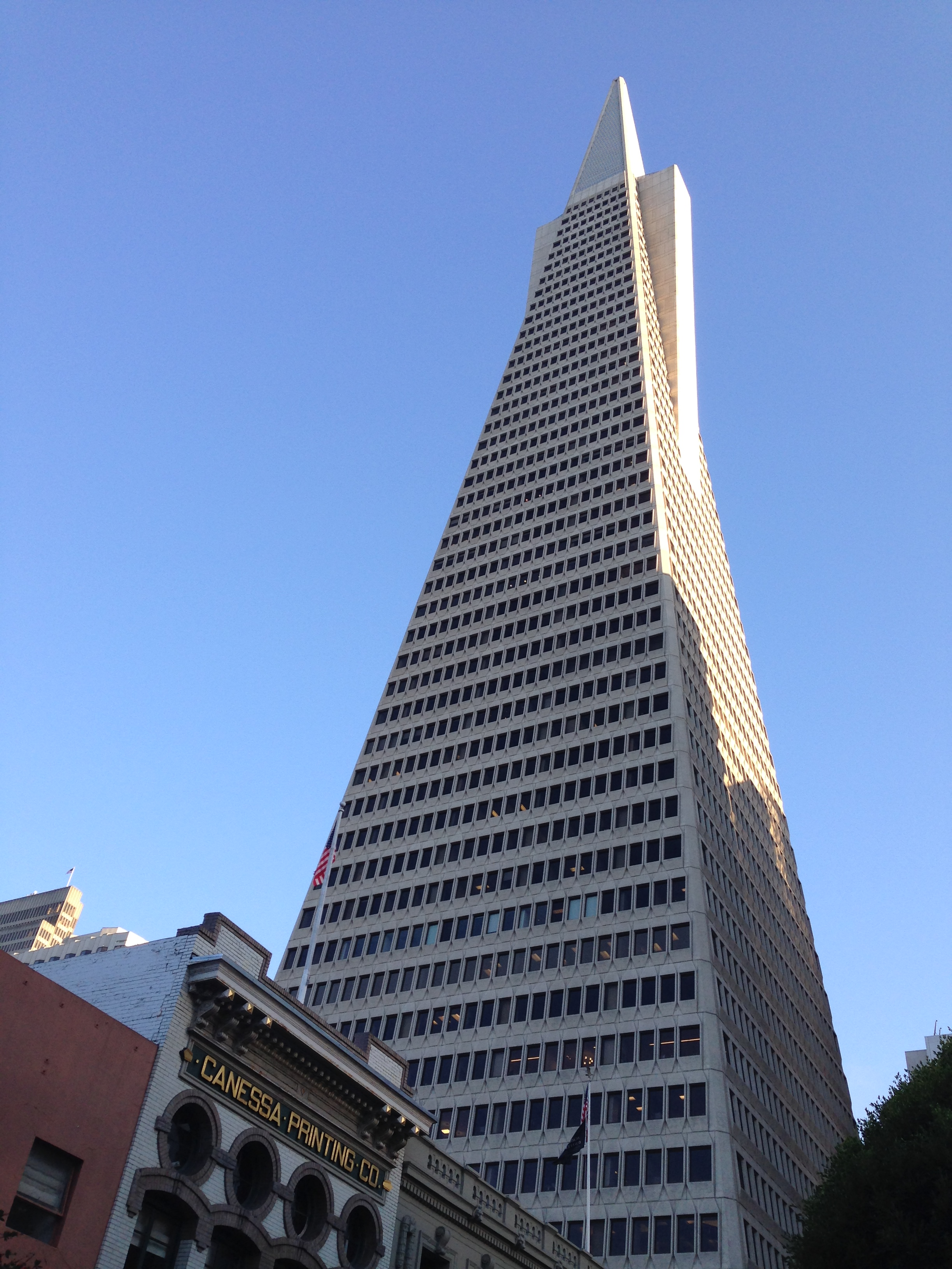 Transamerica Pyramid Tower